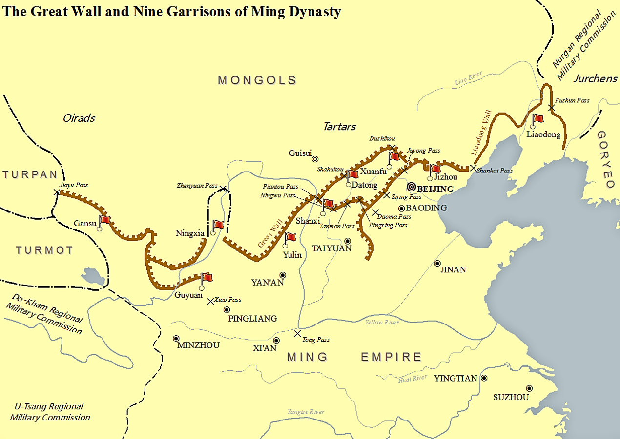 Map of the Great Wall and Nine Garrisons in Ming Dynasty